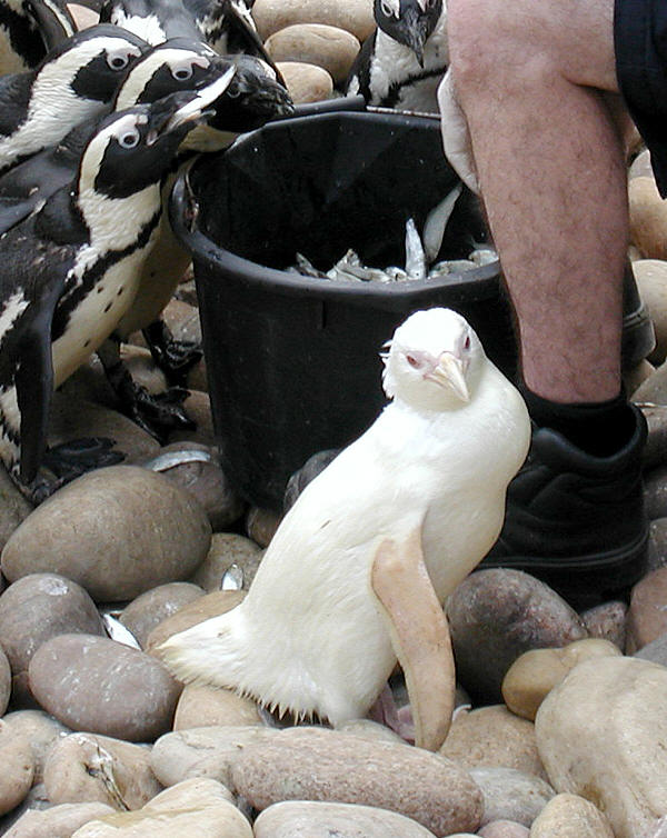 Snowdrop, an albino African Penguin, born in Bristol Zoo, Bristol, England. No other zoo in the world has an albino penguin and only two or three have ever been reported in the wild. The keeper said that the other African penguins seemed unaware of Snowdrop’s special colour. Snowdrop died in August 2004.